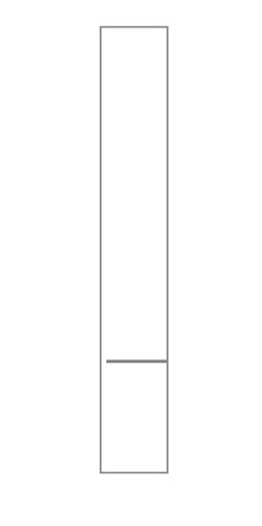 Tube resonator